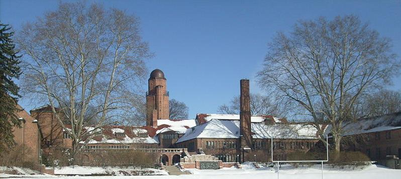 Cranbrook Educational Community